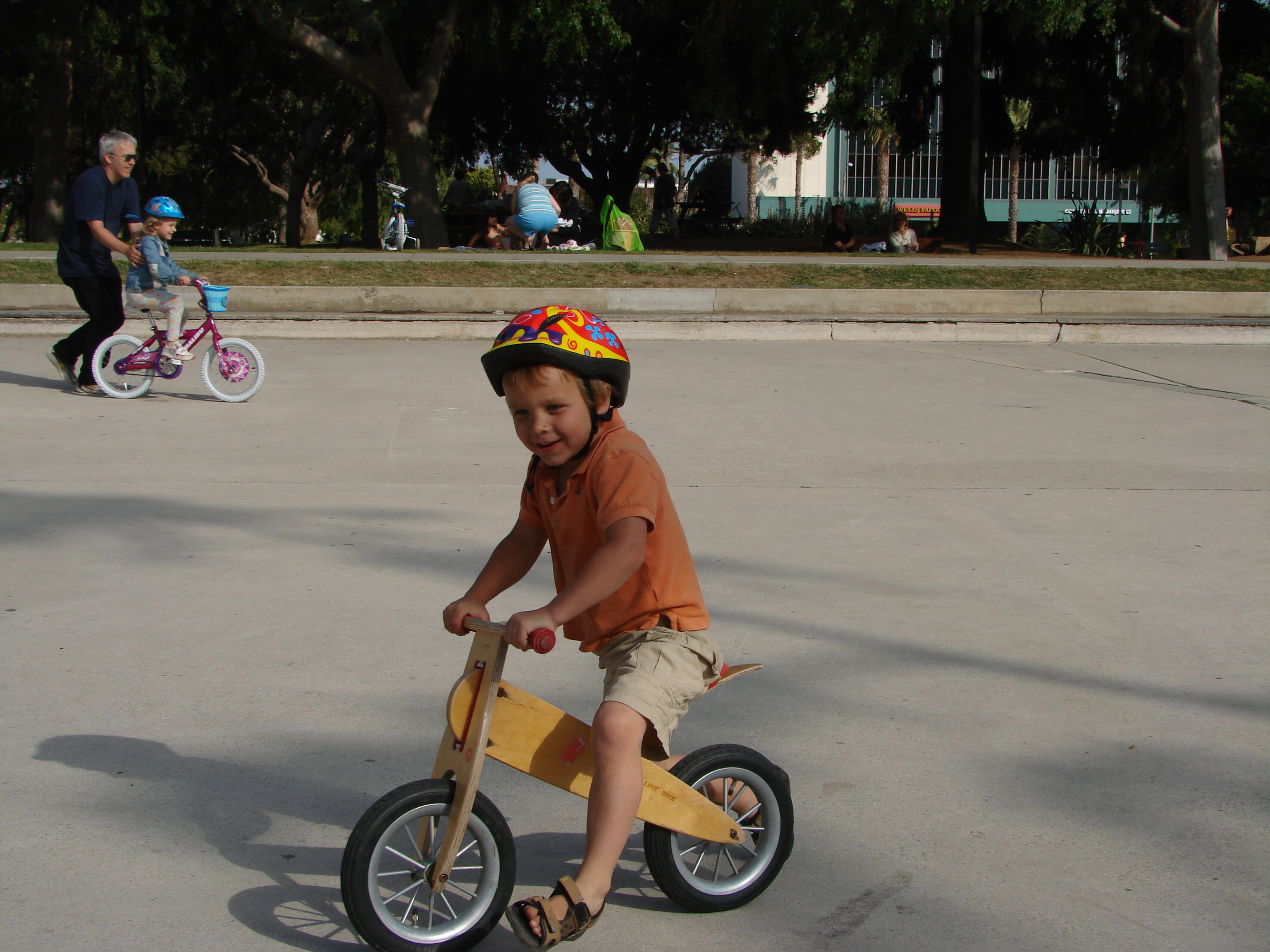 Manufacturer of balance bicycle: LIKEaBIKE